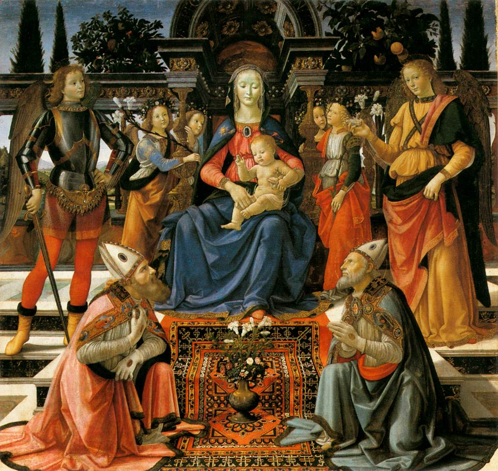 Madonna and Child Enthroned with Saints